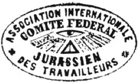 Logo of the Jurafederation.